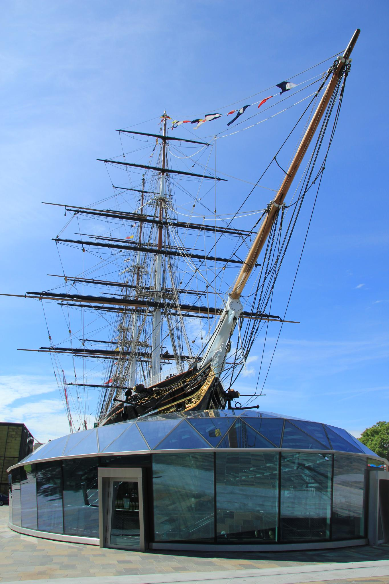 Cutty Sark, King William Walk, Greenwich, London SE10 9HT Badly damaged by fire on 21 May 2007 while undergoing conservation Cutty Sark was relaunched on 25 April 2012 opening a new chapter in the extraordinary life of one of the world’s most famous ships. Built in 1869 for the Jock Willis shipping line, she was one of the last tea clippers to be built, the last surviving and the fastest and greatest of her time, she is a living testimony to the bygone, glorious days of sail and, most importantly, a monument to those that lost their lives in the merchant service. Venture aboard and beneath one of the world’s most famous ships. Walk along the decks in the footsteps of the merchant seamen who sailed her over a century ago. Explore the hold where precious cargo was stored on those epic voyages then marvel as you balance a 963-tonne national treasure on just one hand.